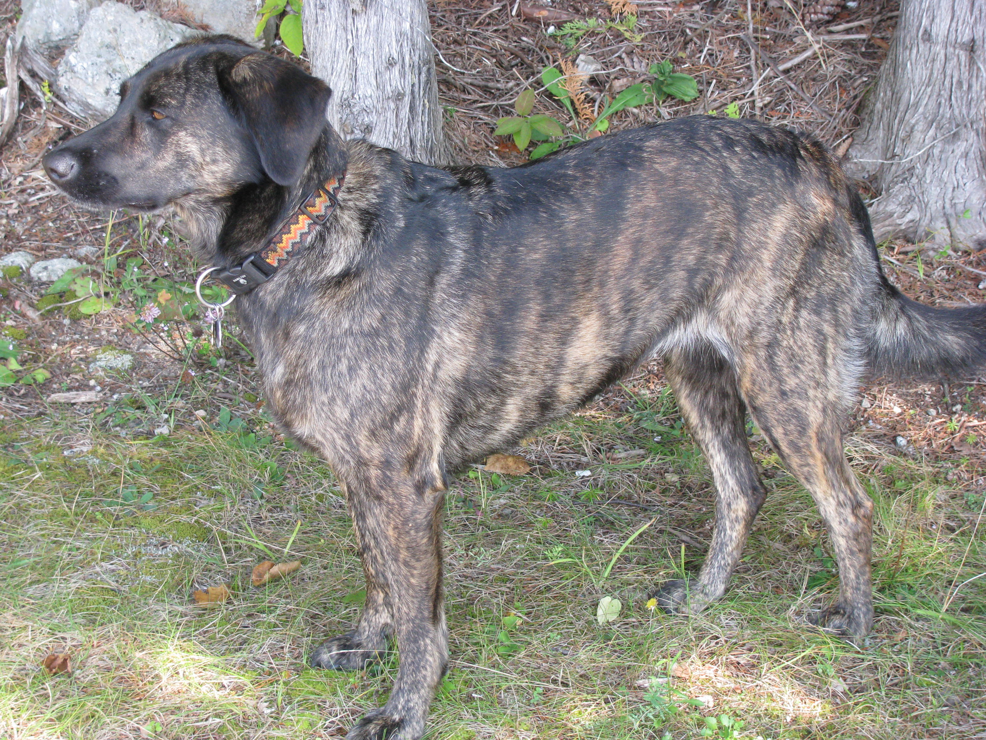 Sienna, the Treeing Tennessee Brindle Dog, photographed at the cottage.